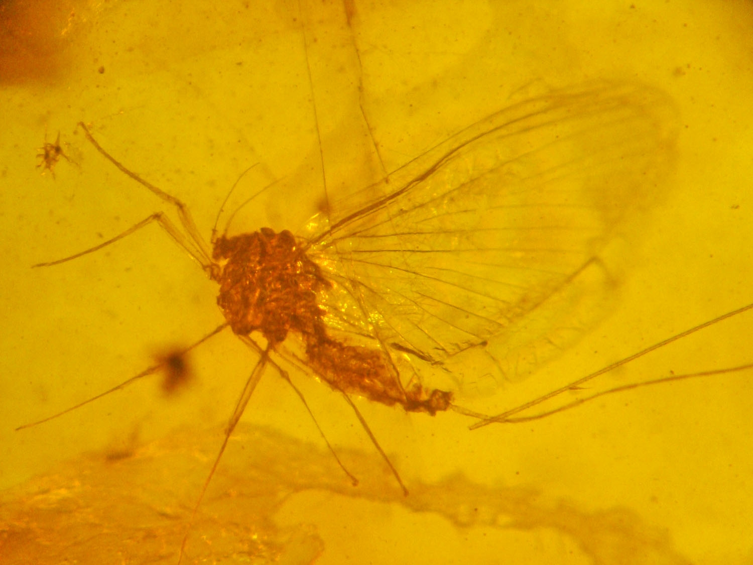 This ancient mayfly, trapped 100 million years ago in amber, is a new species named Vetuformosa buckleyi. (Photo by George Poinar, Jr., courtesy of Oregon State University)